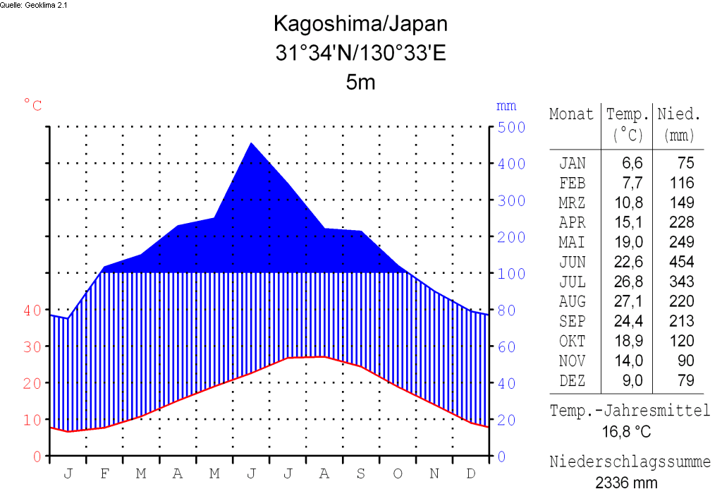 climate chart in the format by Walter and Lieth, metric, °Celsisus and millimeters, made with Geoklima 2.1